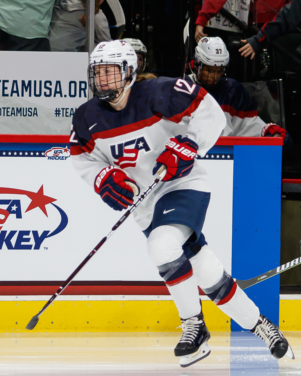 Kelly Pannek playing for Team USA in 2017